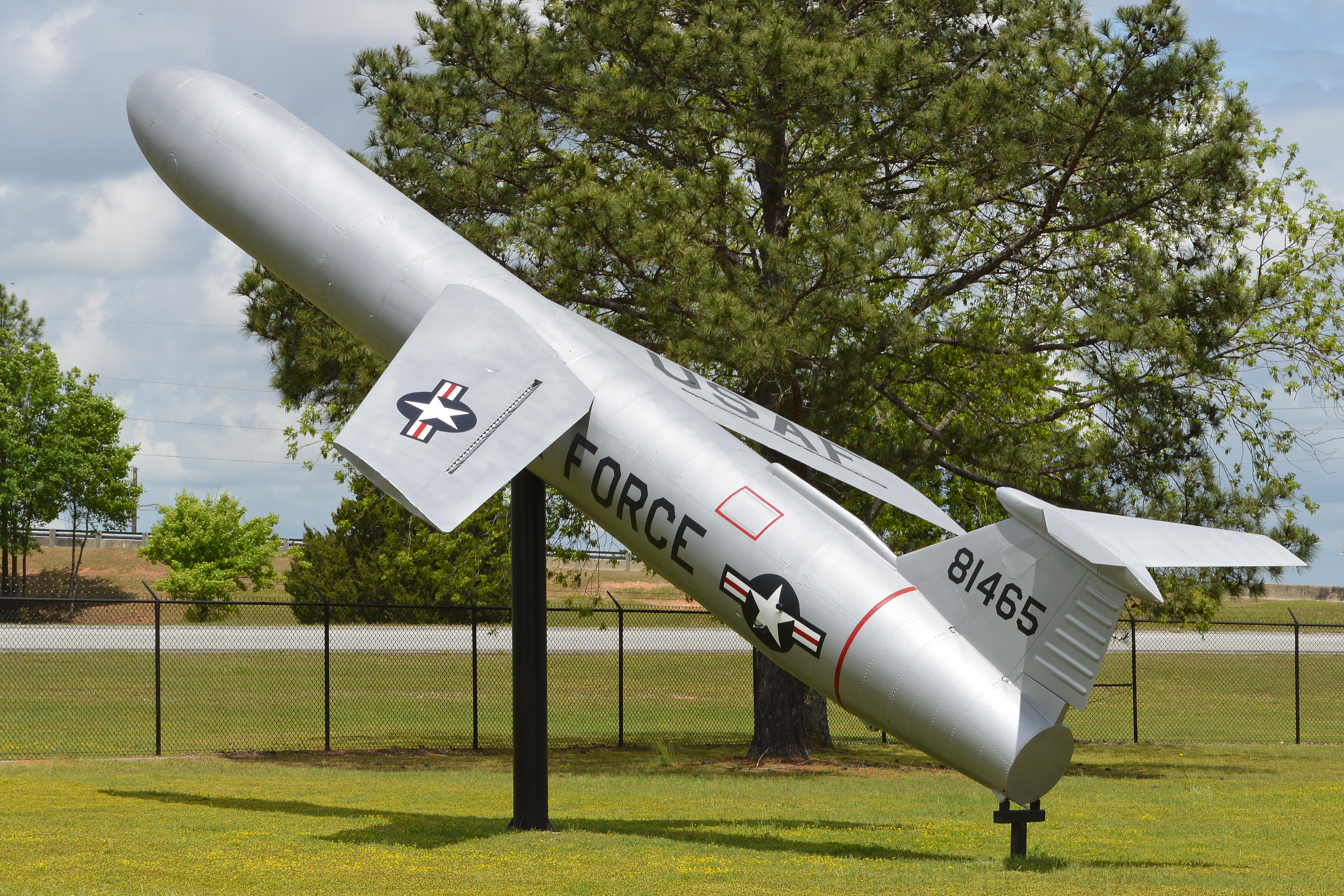 The Mace was a tactical surface to surface missile developed from the TM-61 Matador. It entered service in 1959. Full serial 58-1465. Warner Robins Museum of Aviation. Georgia, USA. 18-4-2013